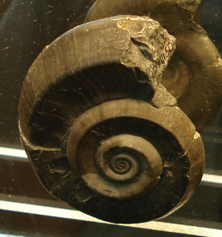 Cropped image of taxon in file name